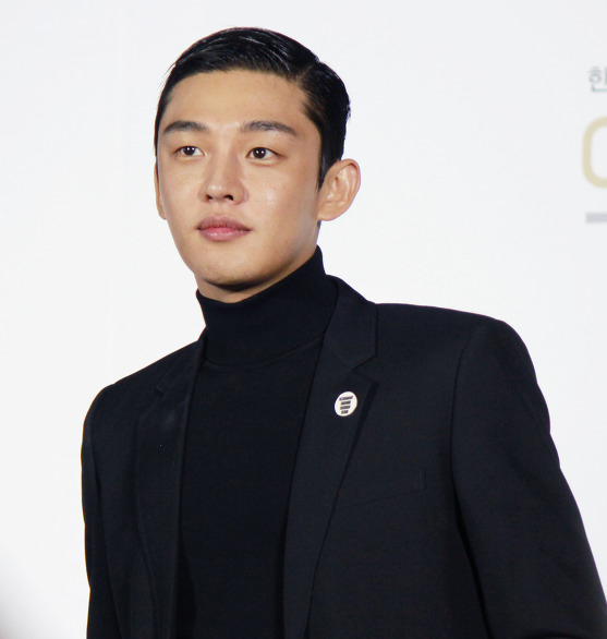 20151003 Yoo Ah-In (유아인) attended BIFF Open Talk with KOFRA